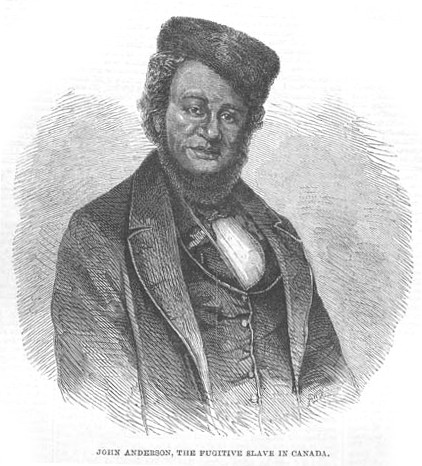 John Anderson, the Fugitive Slave in Canada.